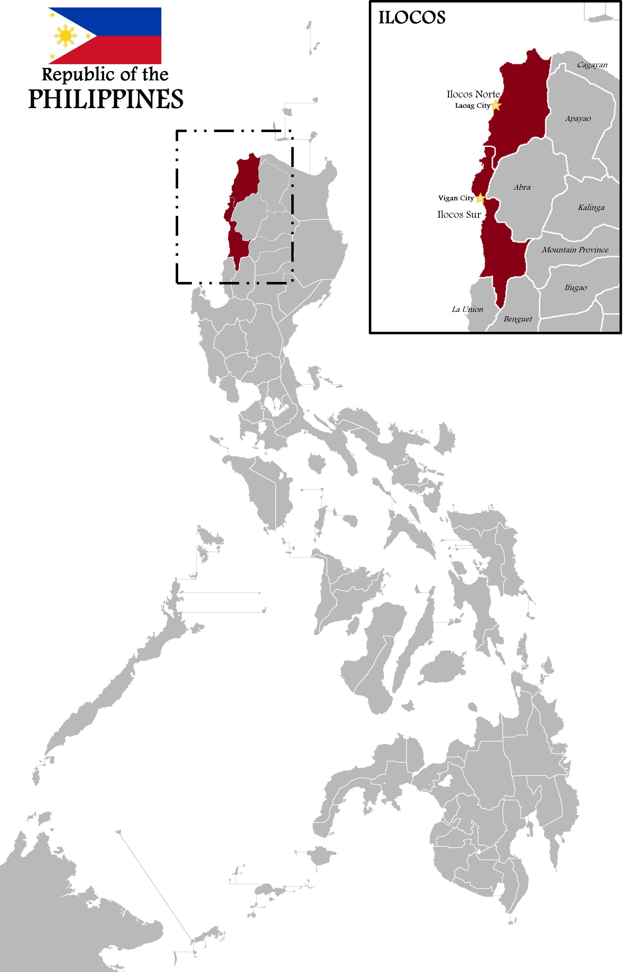 This is a image showing the former province of Ilocos. Made for the page